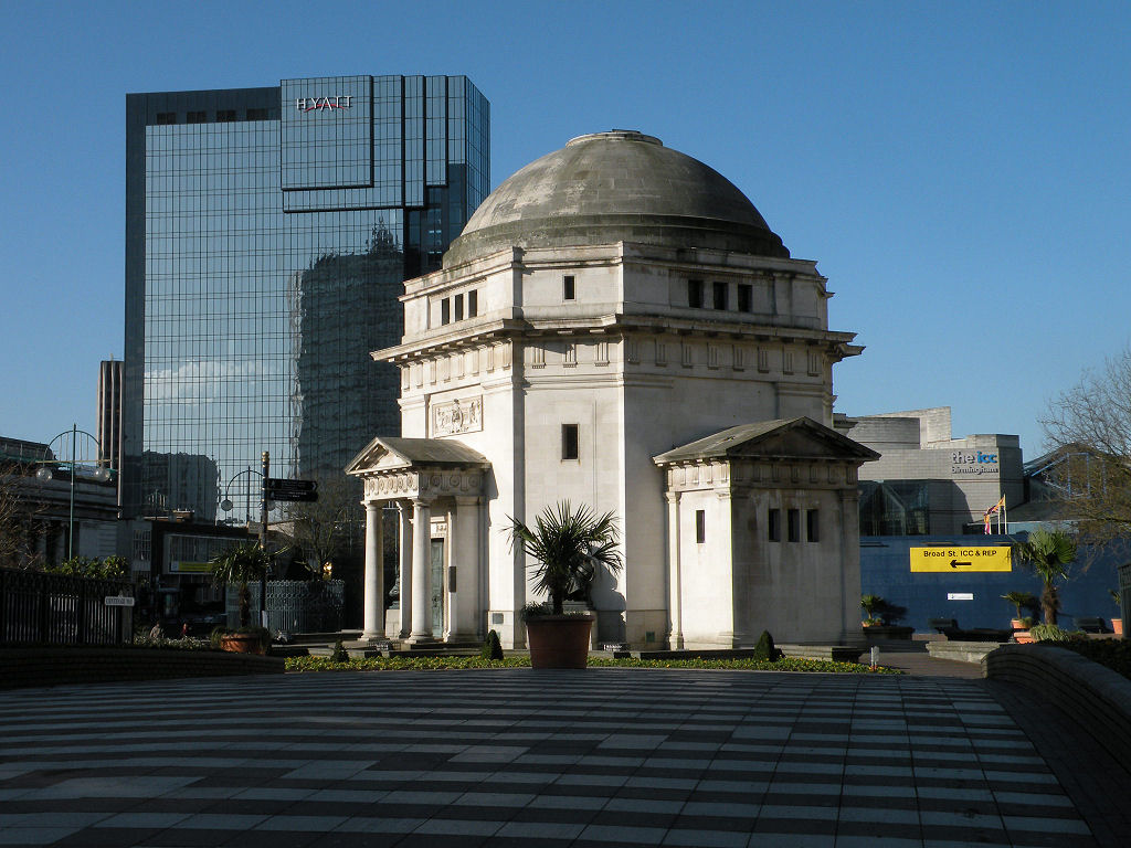 The Hall of Memory. First World War memorial, 1923-4, by S.N.Cooke and W.N.Twist, With sculpture by Albert Toft and William Bloye. Portland stone ashlar on granite ashlar plinth. Stone dome roof. Roman Doric style. Octagonal on plan, or square with splayed corners; and porticos on each of the long sides. Broad pilasters at the corners, Doric entablature with deep cornice and attic above, on top of which is a low drum and a shallow stone dome. Pedimented Roman Doric porticos with carved stone relief panels above and splayed corners with four large bronze figures by Albert Toft, depicting the armed services. Grade II listed. Seen here from Century Way the nearest bronze figure is hidden by the potted palm. Nowadays the hall is dwarfed by the blue glass bulk of 1754670, with the International Convention Centre visible on the right. For the panel over the porch see 1755132